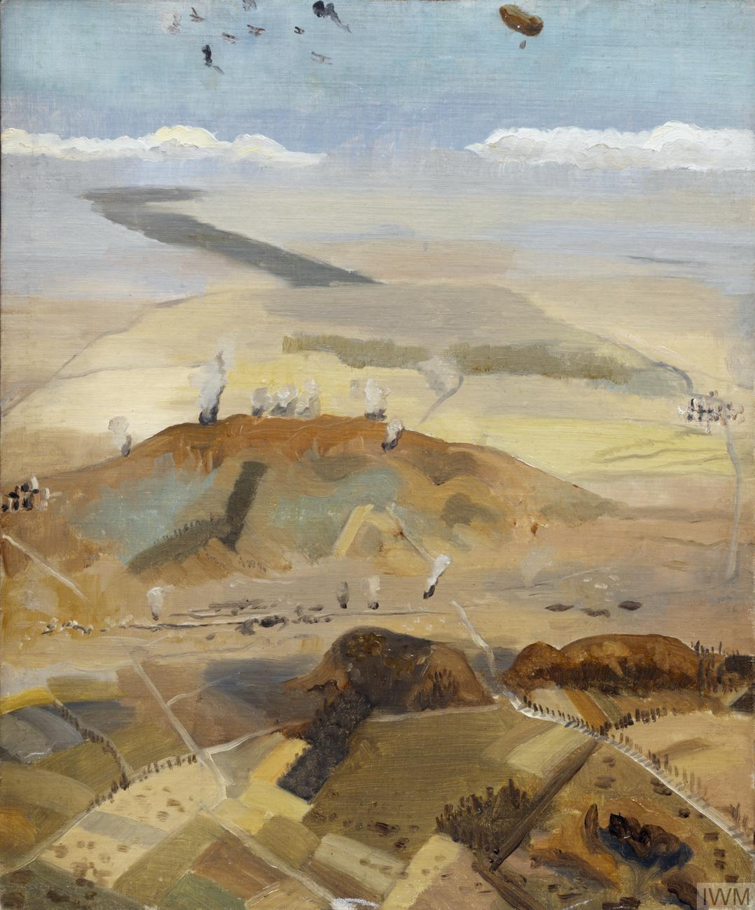 Kemmel Hill Seen from an Aeroplane image: An aerial view from an aircraft over Kemmel Hill and the surrounding Flanders landscape. The hill itself is in the middle ground, with the top of the hill under artillery bombardment. Before the hill is a small valley that is also under bombardment and has a more battle scarred appearance. Two roads run towards this valley. Aircraft, a balloon and black puffs of anti-aircraft fire are visible in the sky in the distance.